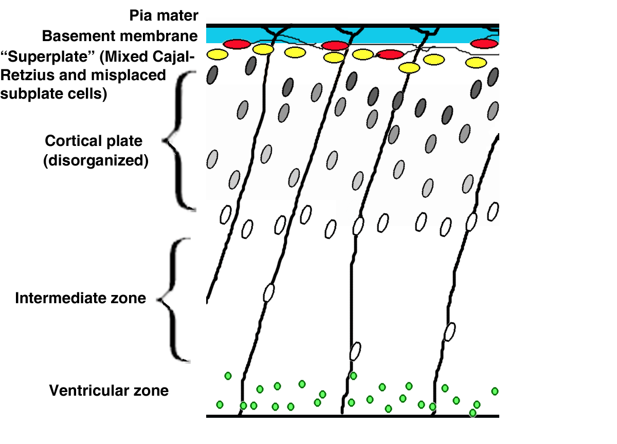 Corticogenesis in a brain of a reeler mutant mouse (lacking the Reelin protein). Six cortical layers are disorganized and inverted. Subplate cells mingle with Cajal-Retzius cells, creating the so-called "superplate". Radial glia fibers grow askew.